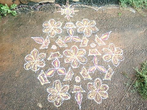 Rangoli fillings of india